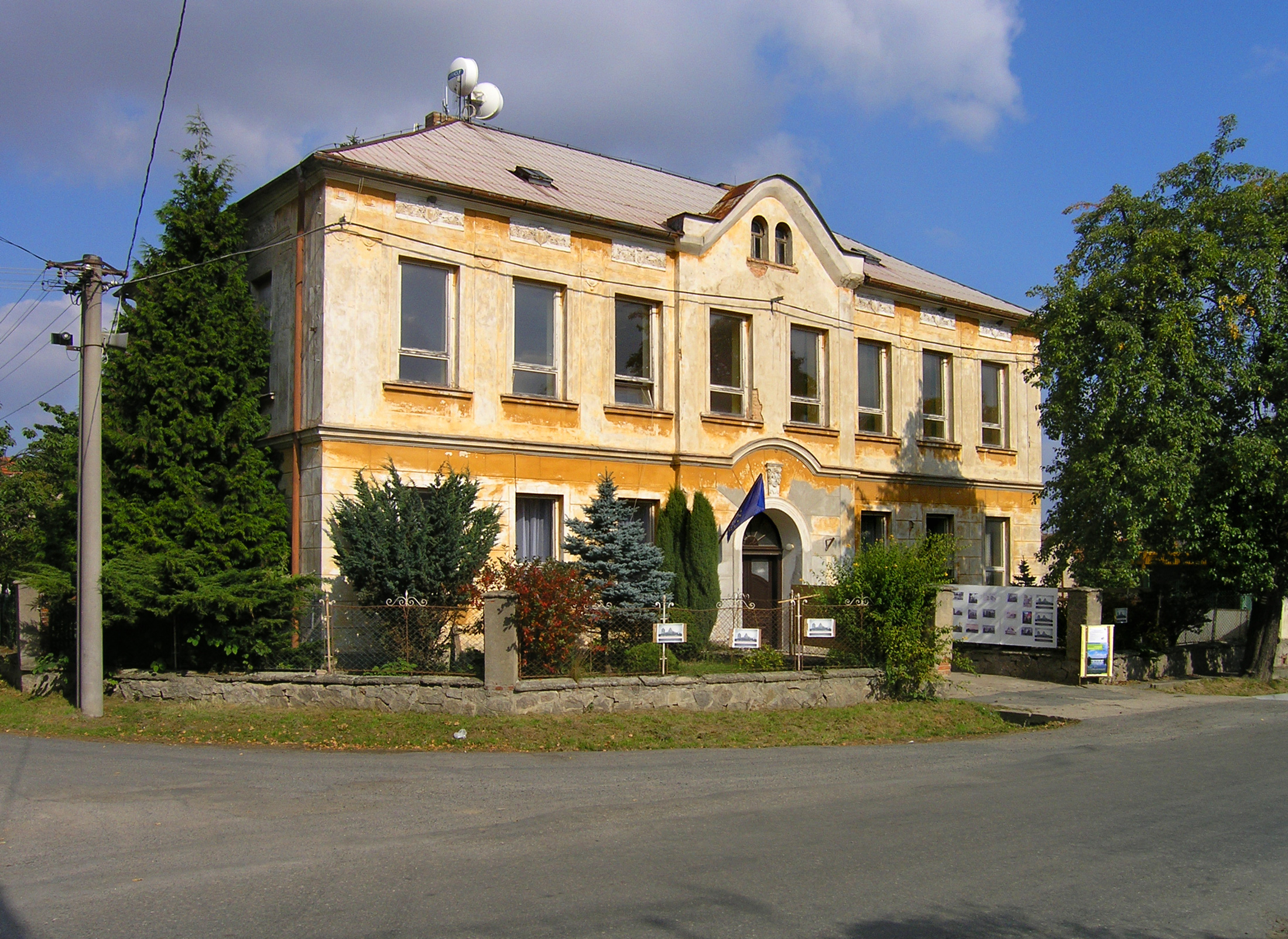 School building in Hradešín, Czech Republic